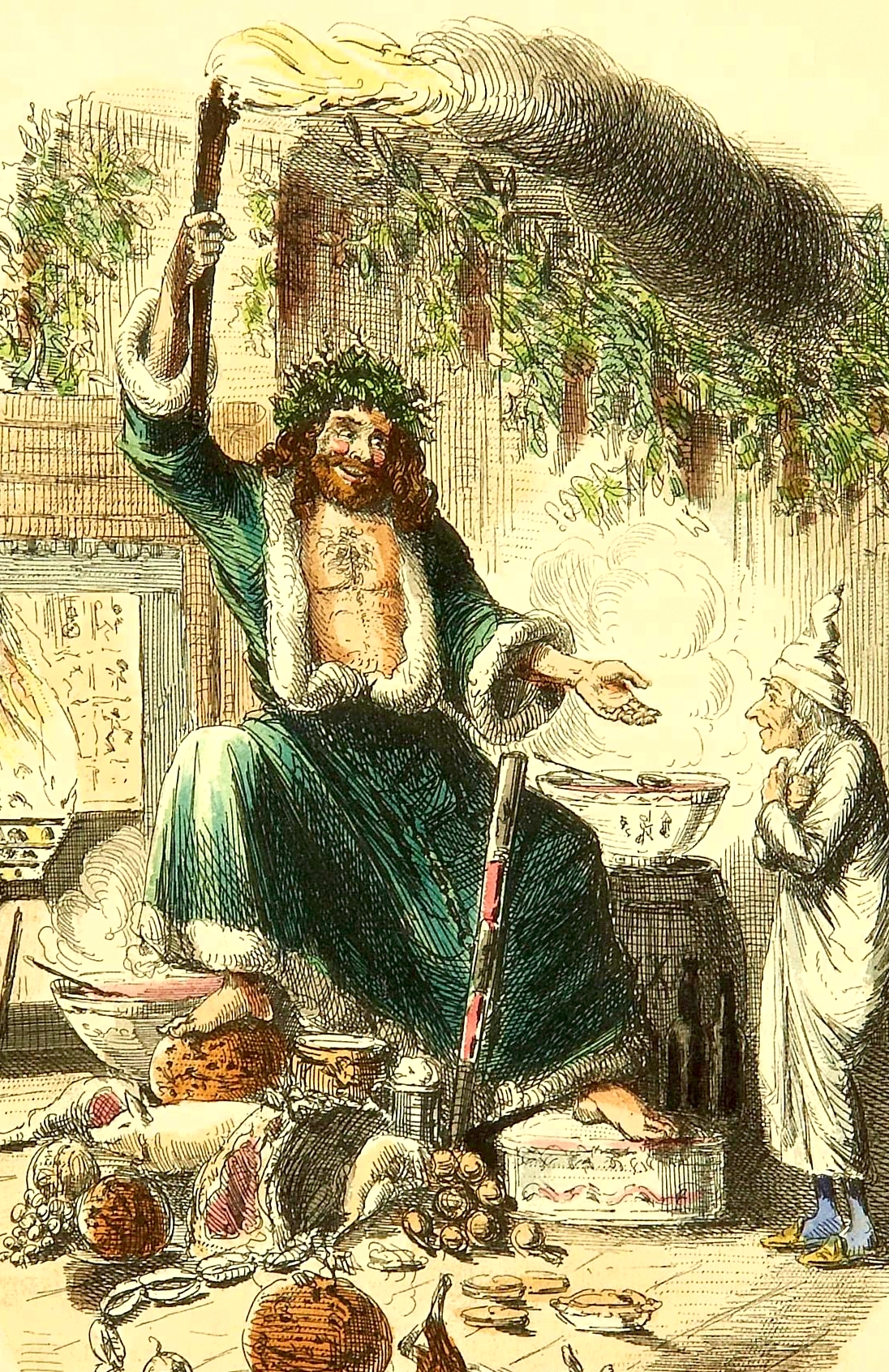 A colourised edit of an engraving of Charles Dickens' "Ghost of Christmas Present" character, by John Leech in 1843.